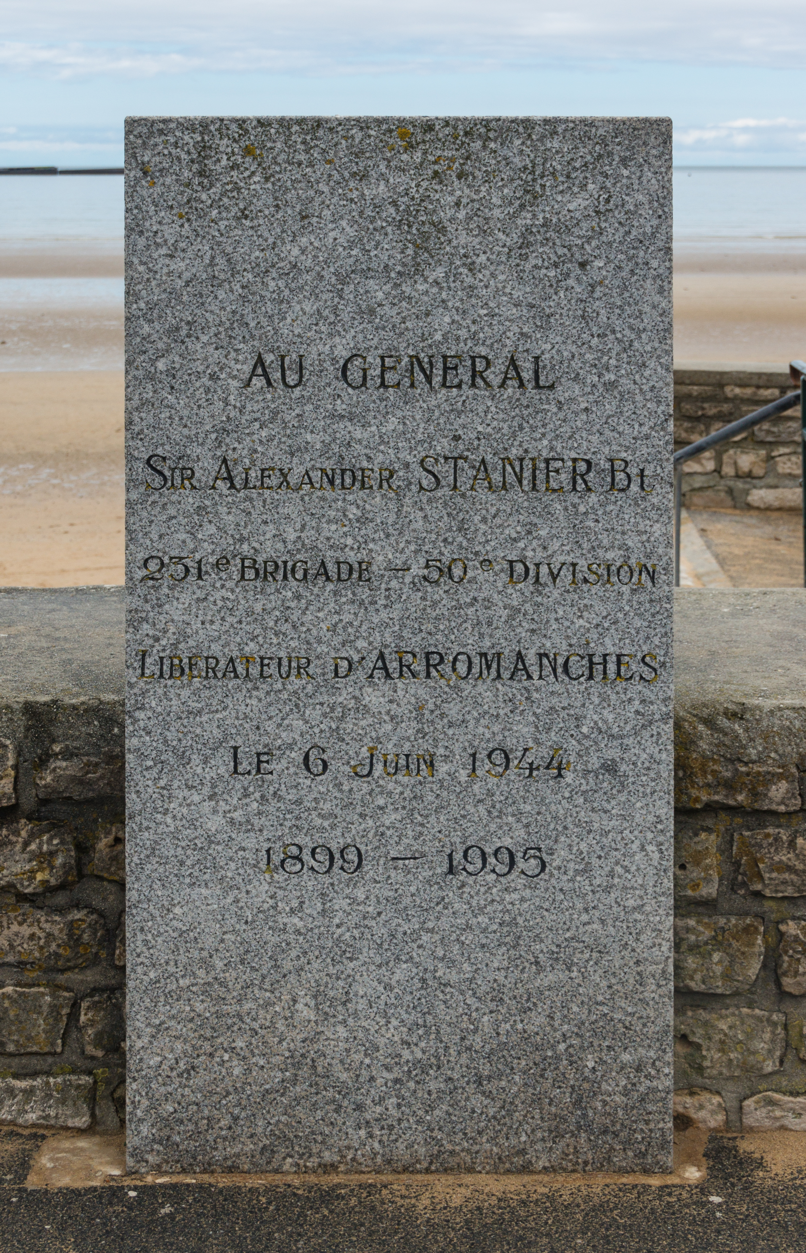 Tribute plaque to general sir Alexander Stanier, june 6 1944, Gold Beach, Arromanches les Bains, Calvados, Normandy, France